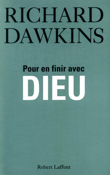 Cover Richard Dawkins' God Delusion